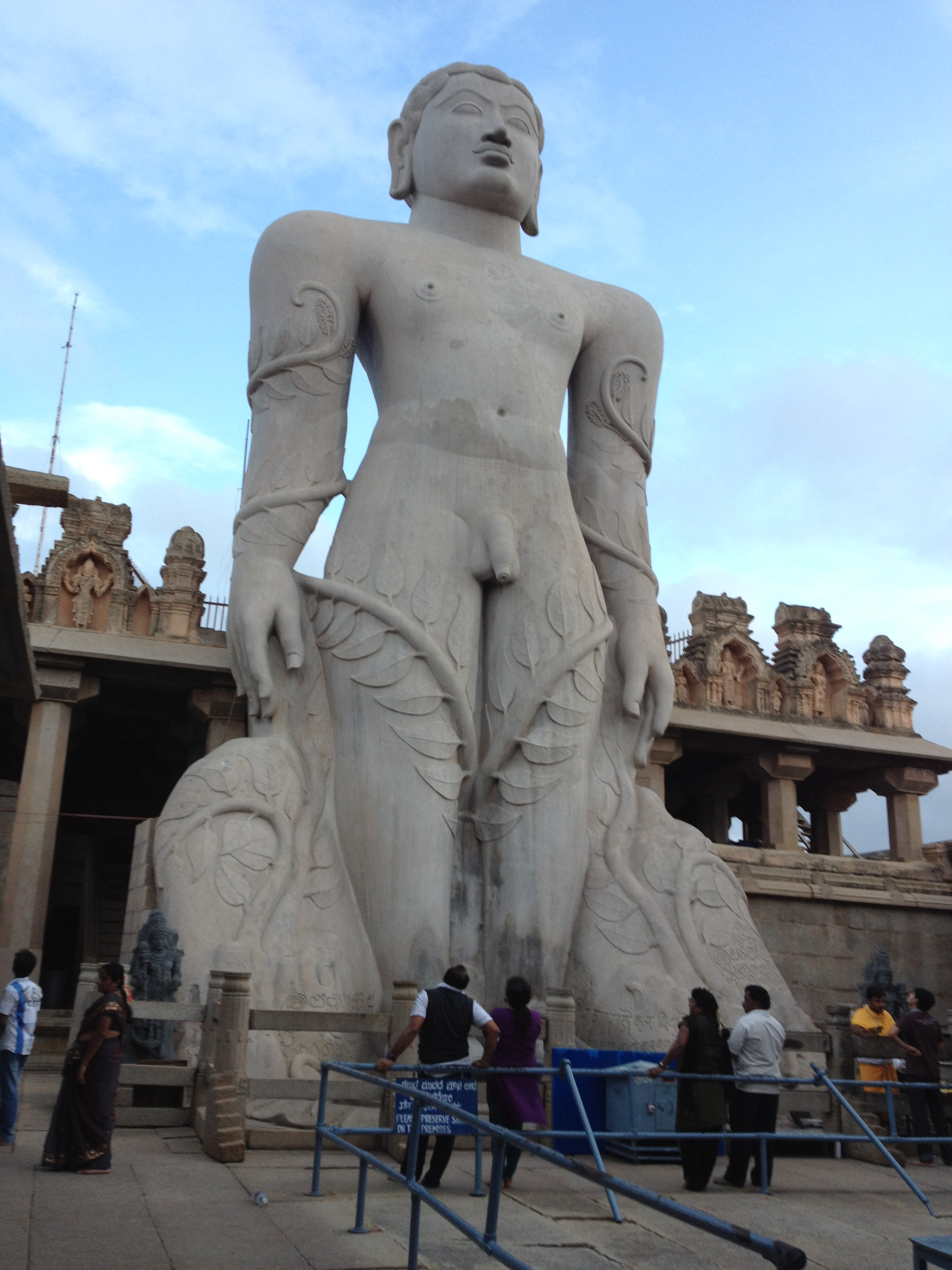 Gomatesvara Statue